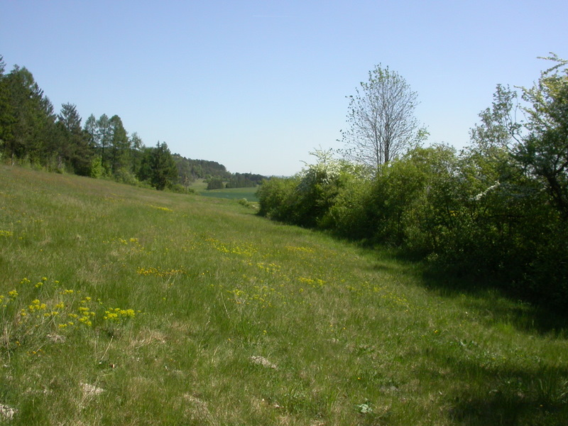 In Belgium, the rare Vibidia duodecimguttata seems to be restricted to deciduous bushes or trees (Hazel, Hawthorn,...) situated in dry and hot calcareous places.